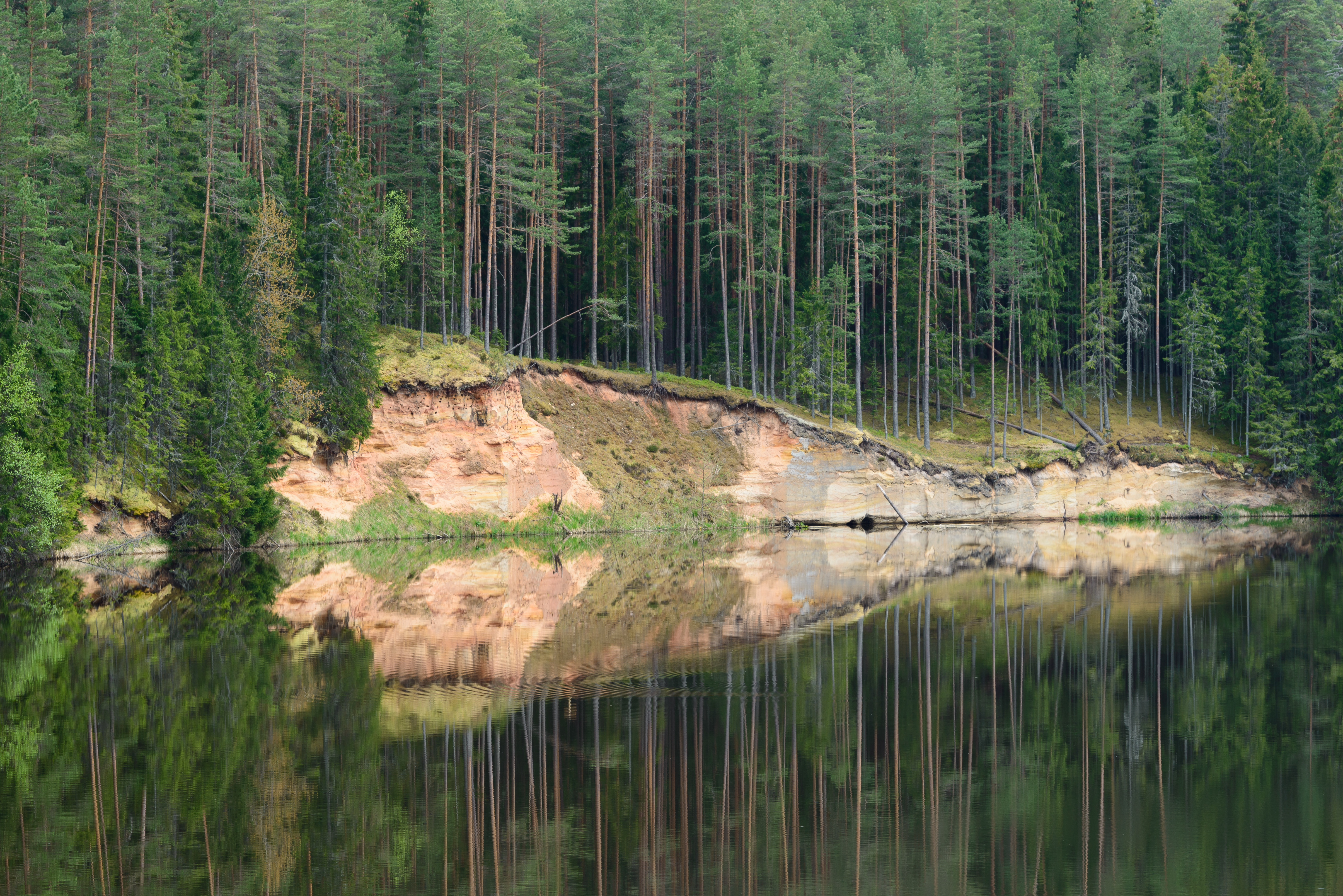 Sandstone outcrop on Ahja river